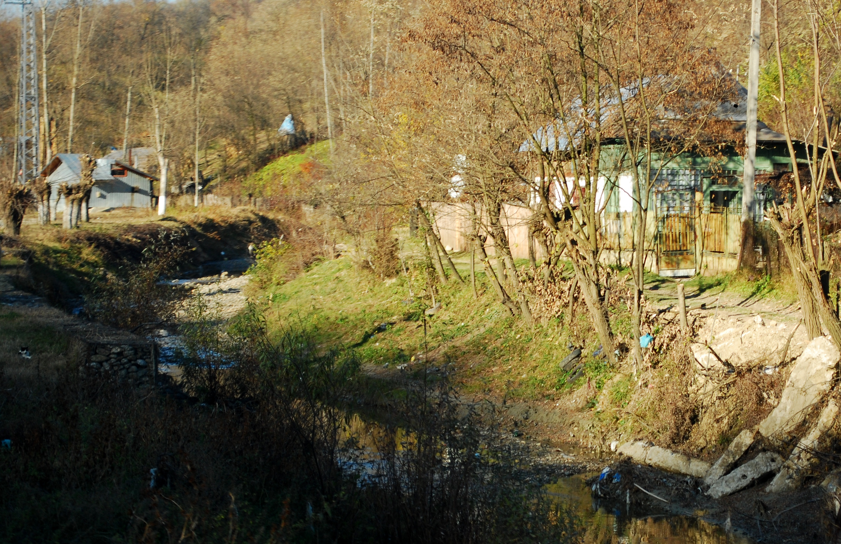 Mislea River in Telega commune, Prahova County, Romania